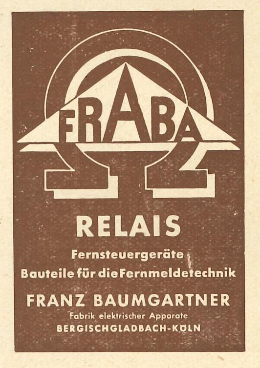 FRABA advertisement with logo 1952